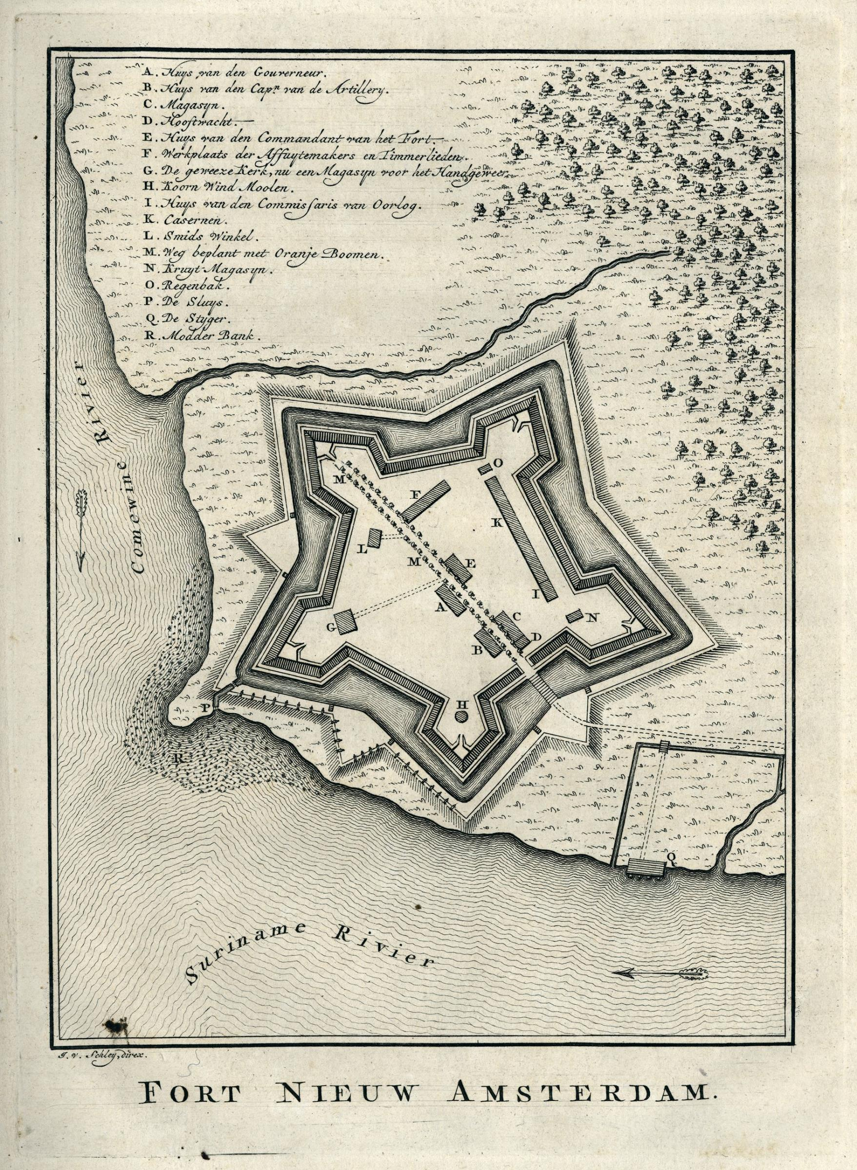 Map of Nieuw Amsterdam fort. Fort Nieuw Amsterdam. Key: A. Huys van den Gouverneur. / B. Huys van de Cap:n van de Artillery. / C. Magasyn. / D. Hooftwacht. / E. Huys van den Commandant van het Fort. / G. De geweeze kerk, nu een Magasyn voor het Handgeweer. / H. Koorn Wind Moolen. / I. Huys van den Commissaris van Oorlog. / K. Casernen. / L. Smids Winkel. / M. Weg beplant met Oranje Boomen. / N. Kruyt Magasyn. O. Regenbak. / P. De Sluys. / Q. De Styger. / R. Modder Bank.